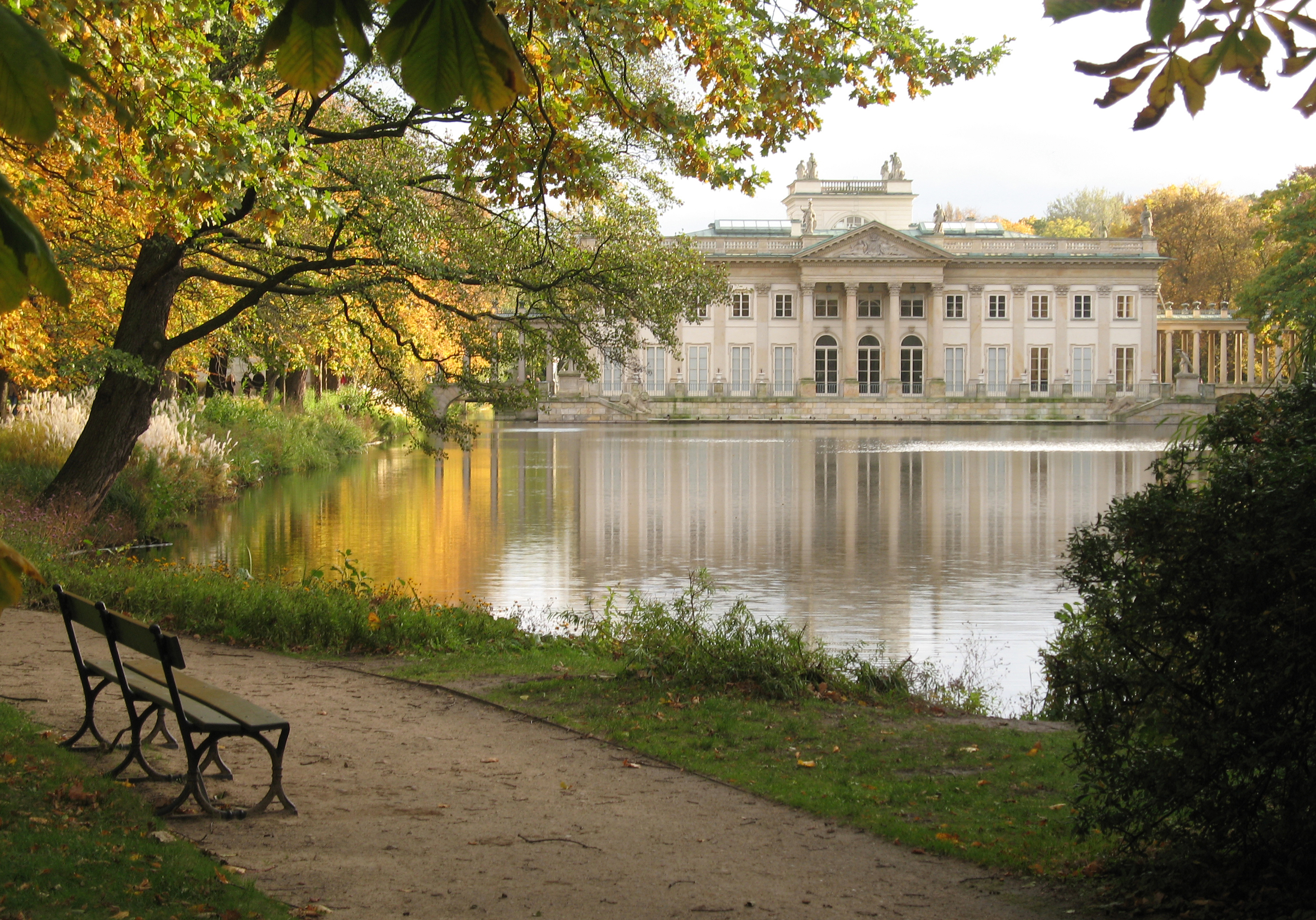 The Lazienki Palace, Palace on the water, in Warsaw's Royal Baths Park.